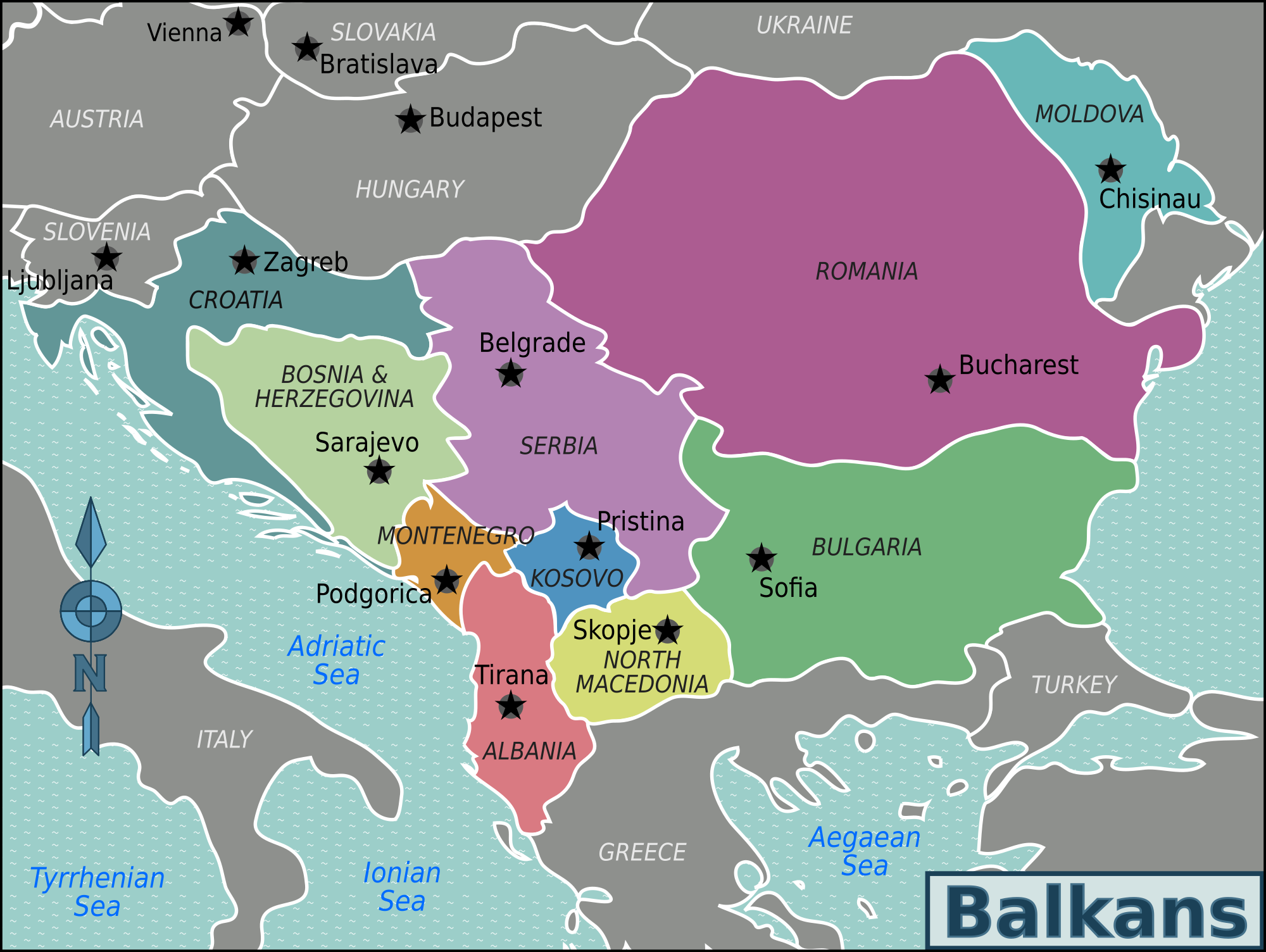 Balkans regions map for use on Wikivoyage, English version